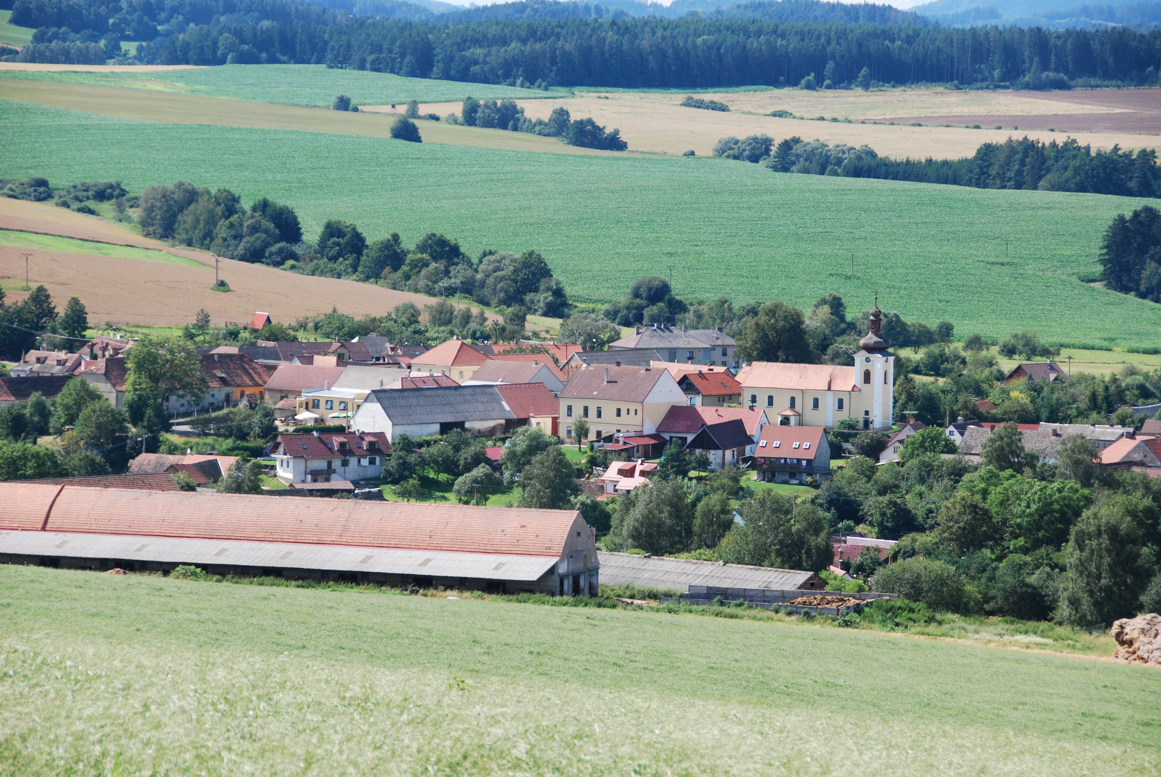 Kamberk village in Benešov District in the Central Bohemian Region Česky: Obec Kamberk ležící v okrese Benešov na hranicích středočeského a jihočeského kraje.